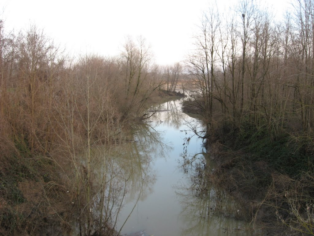 River Rigosa